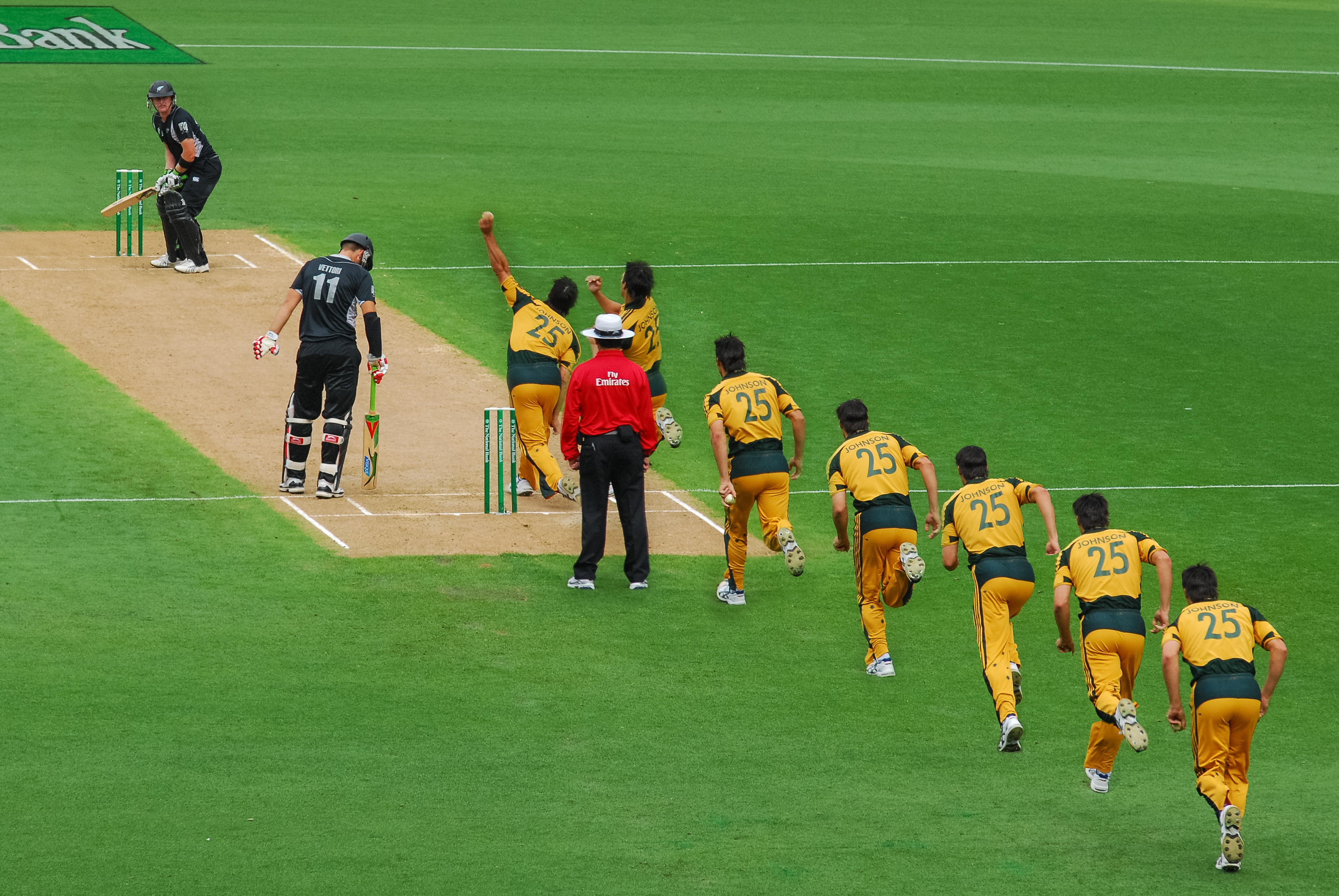 A photo montage of the final stages of the run-up of Australian fast bowler Mitchell Johnson at an ODI match against New Zealand at Eden Park, Auckland This is a retouched picture, which means that it has been digitally altered from its original version. Modifications: Series of photos partially superimposed.